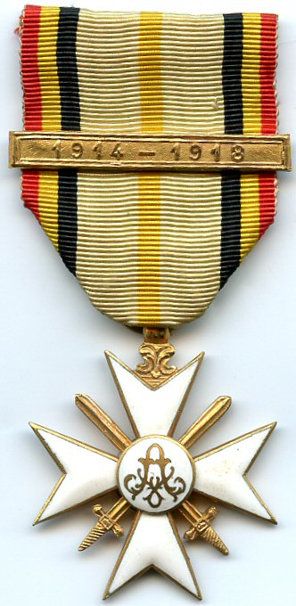 Civic Decoration 1st class 1914-1918